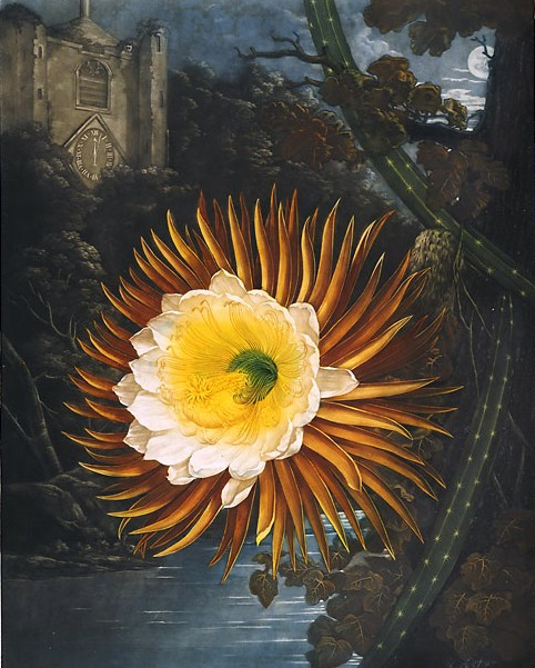 A night-blooming cerius Selenicereus grandiflorus, originally titled The Night-Blowing Cereus[sic] when it appeared in the The Temple of Flora, 1804.